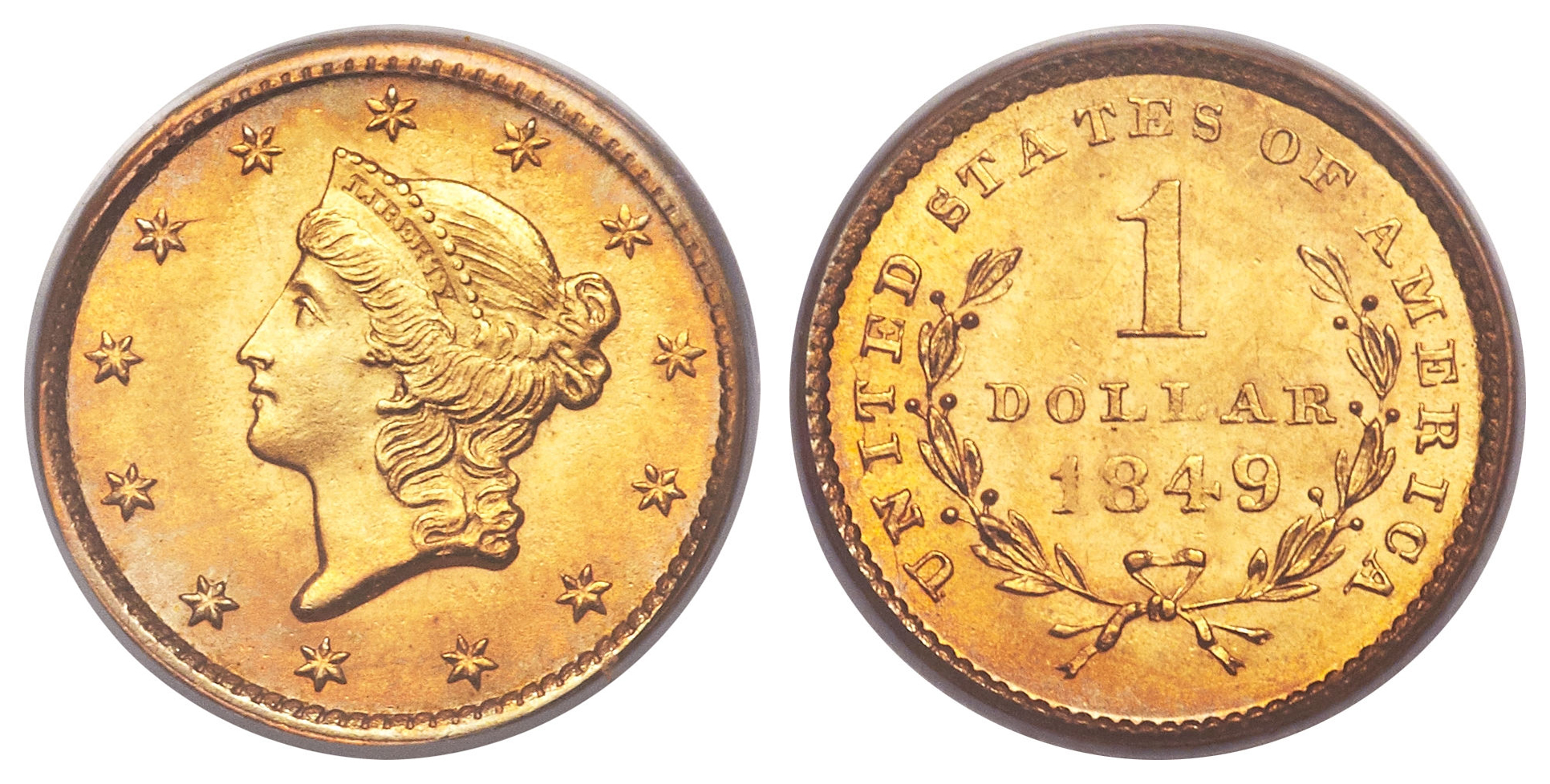 1849 G$1 Open Wreath (1216-6787)